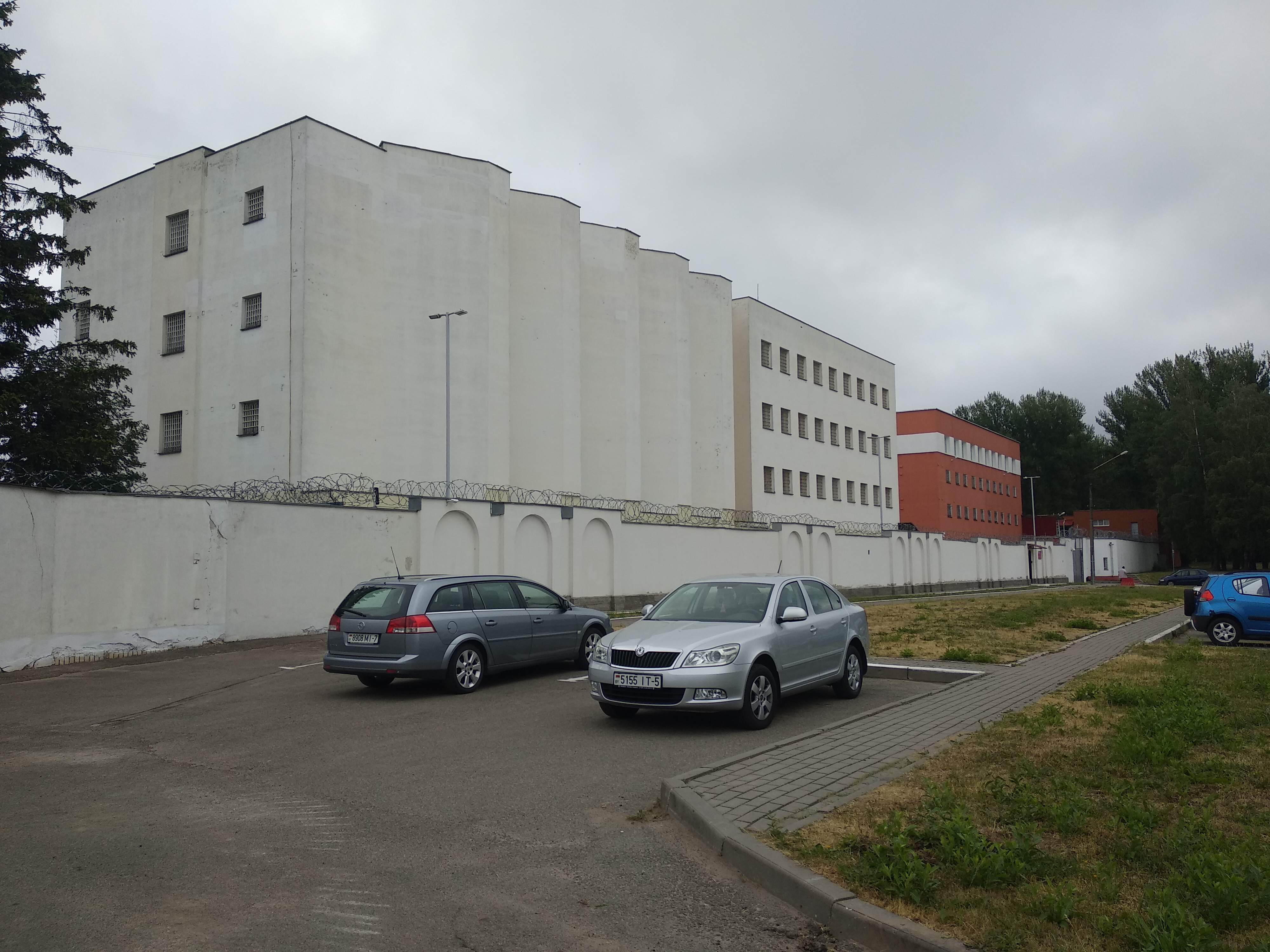 Prison cell in Minsk